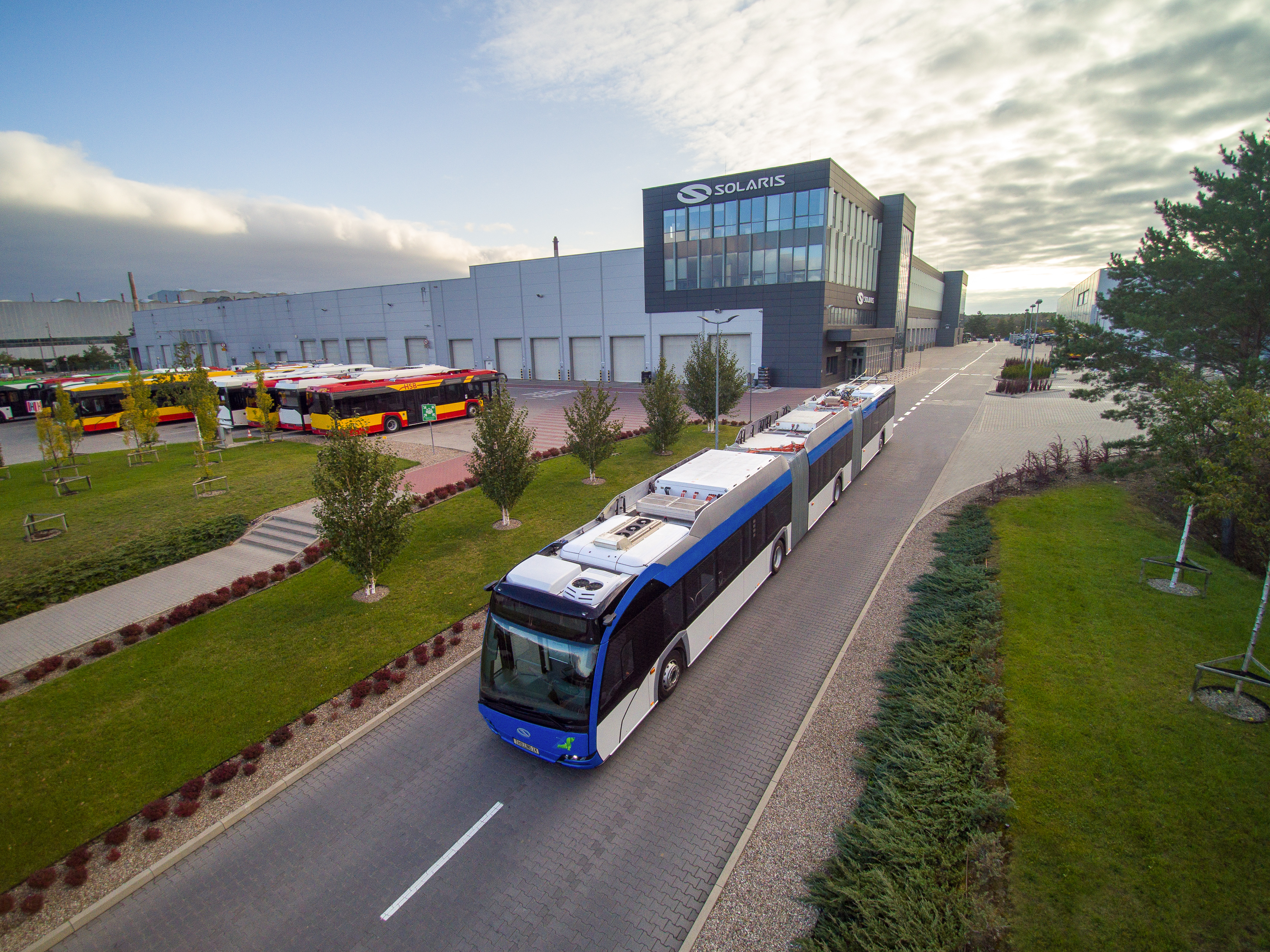 Solaris Trollino 24 MetroStyle - prototype built in 2019